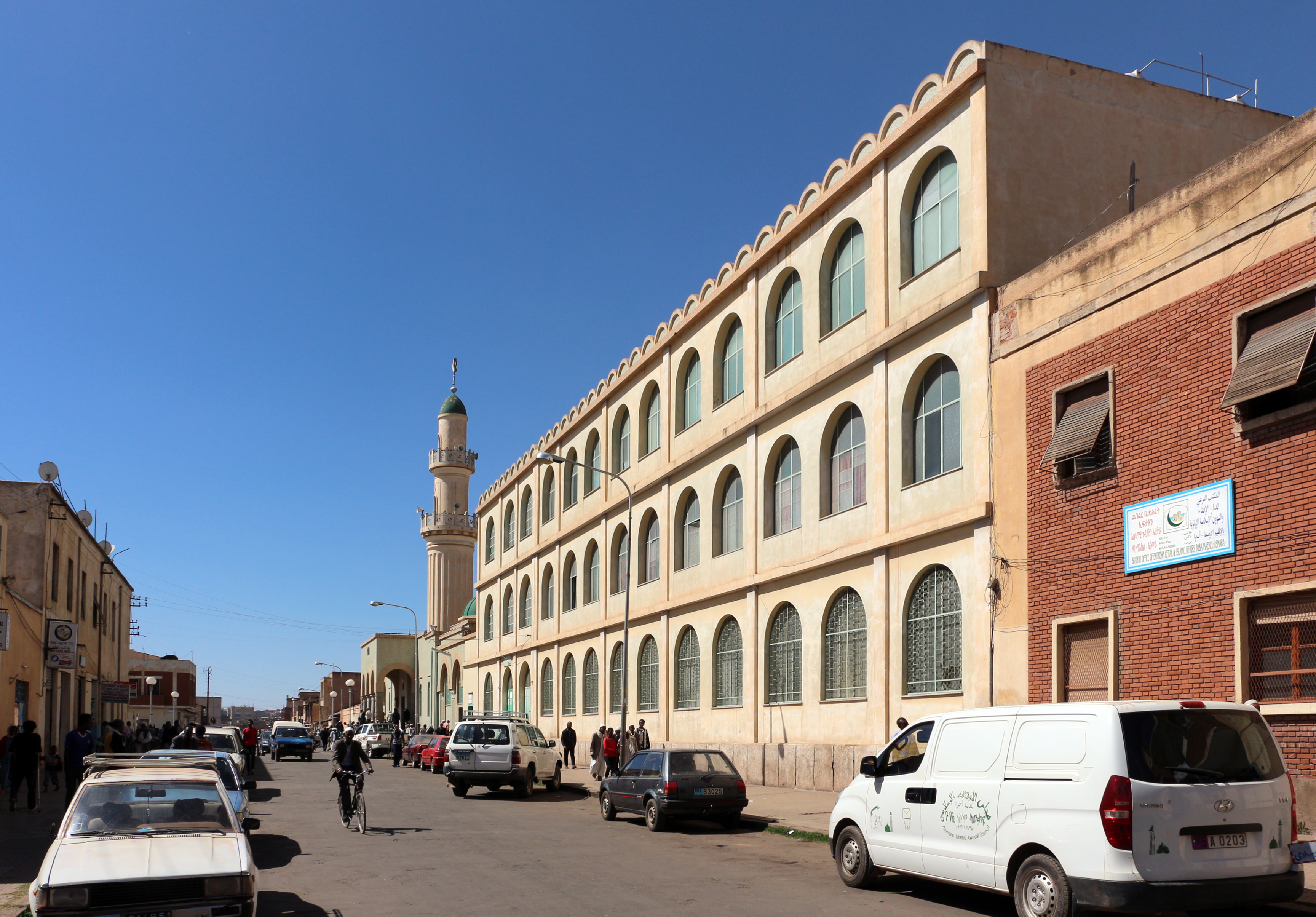 Asmara, moschea 03.JPG